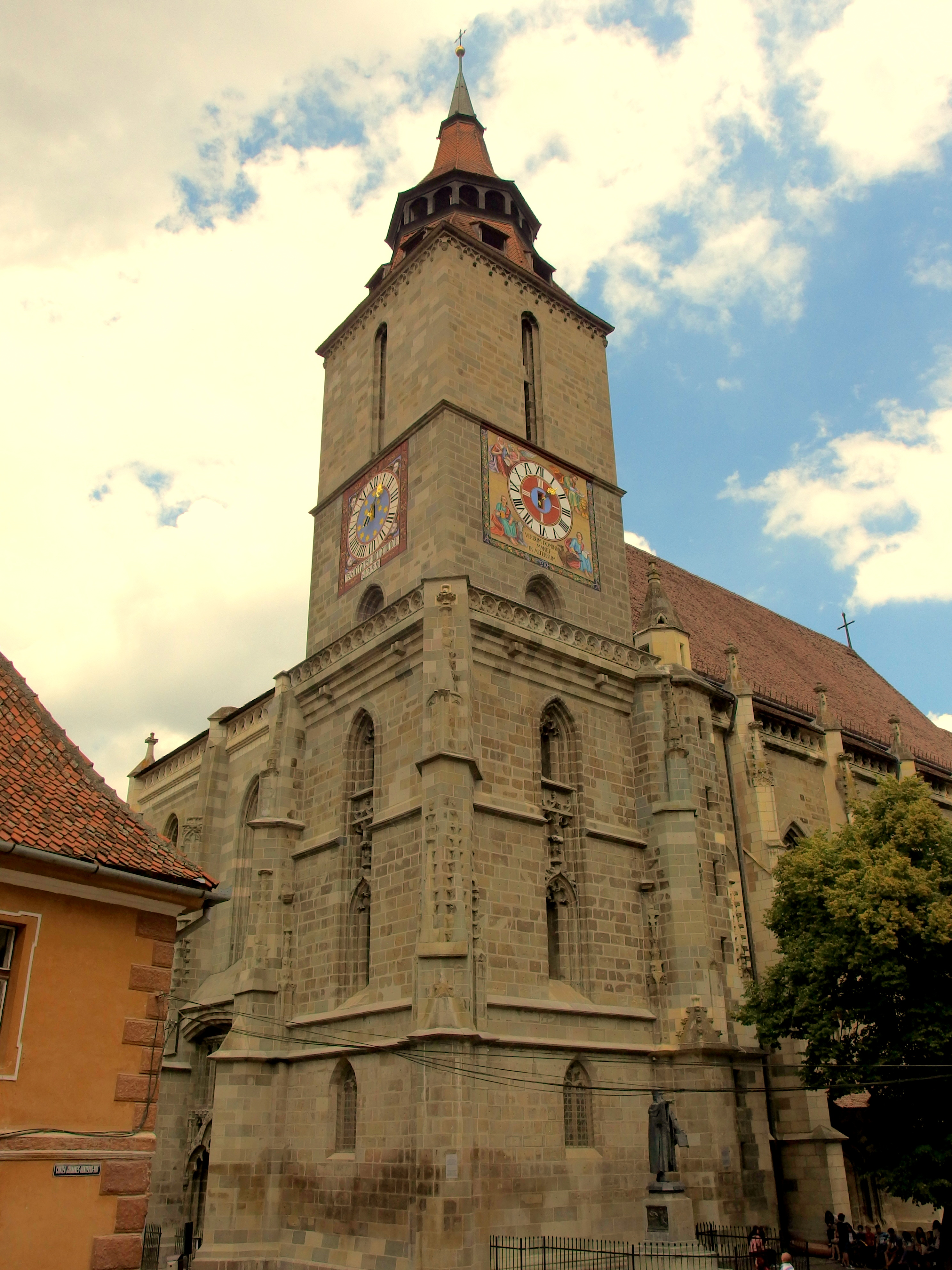 2014-06-27 in Braşov.